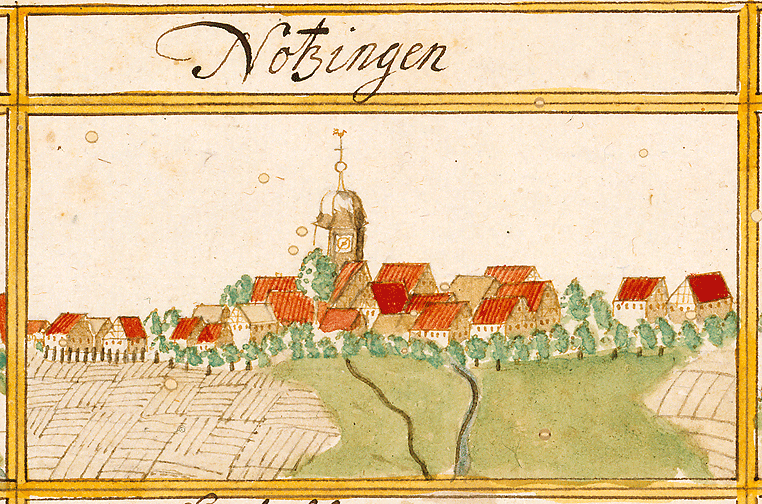 View of Notzingen from the forest register books created by Andreas Kieser